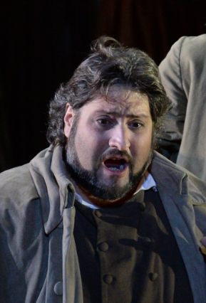 The Italian bass-baritone Nicola Alaimo (William Tell) at Rossini's Guillaume Tell General at Chorégies d'Orange 2019